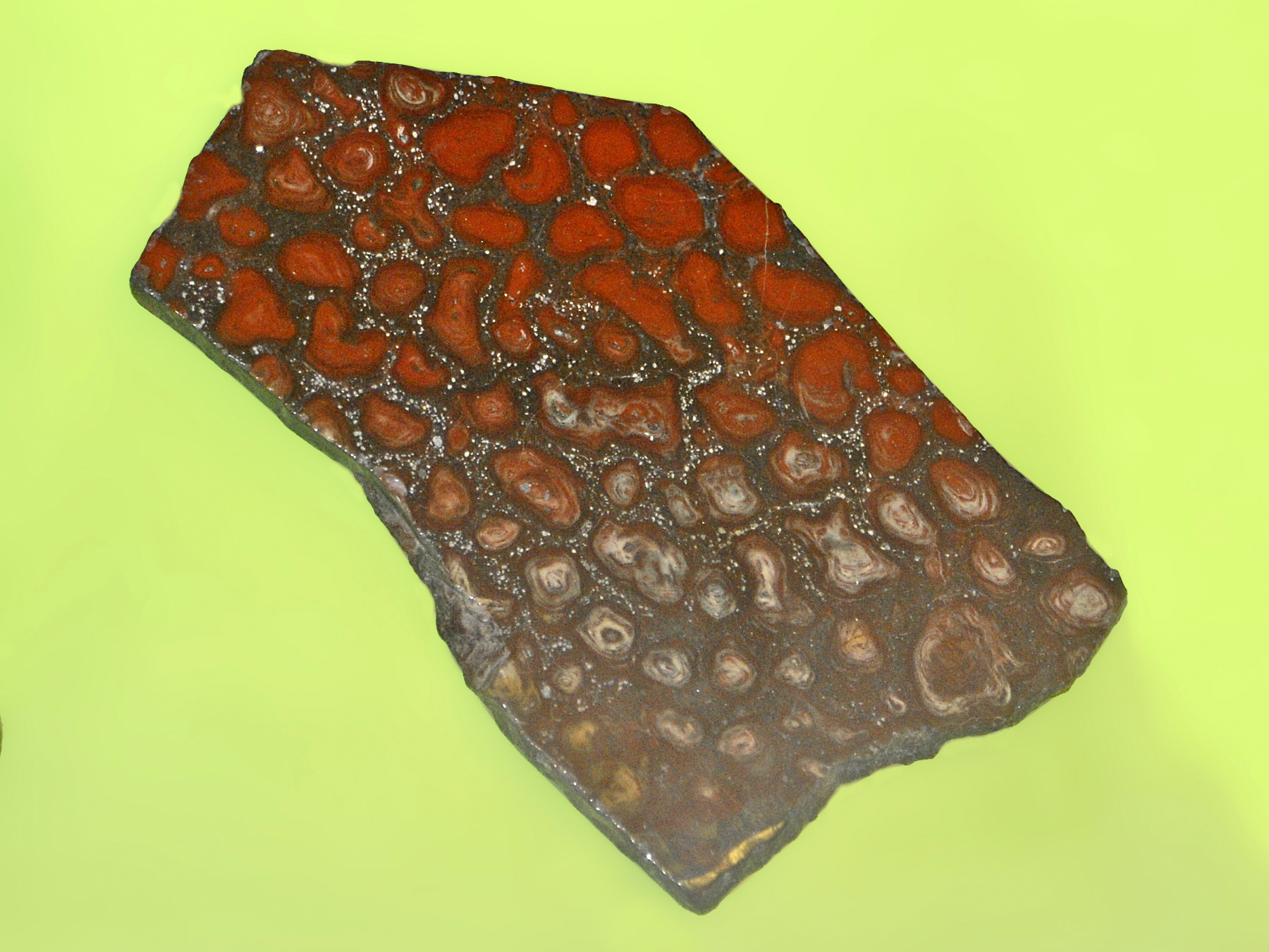 Collenia undosa stromatolite from Precambrian of United States, on display at the Museo Civico di Storia Naturale di Milano